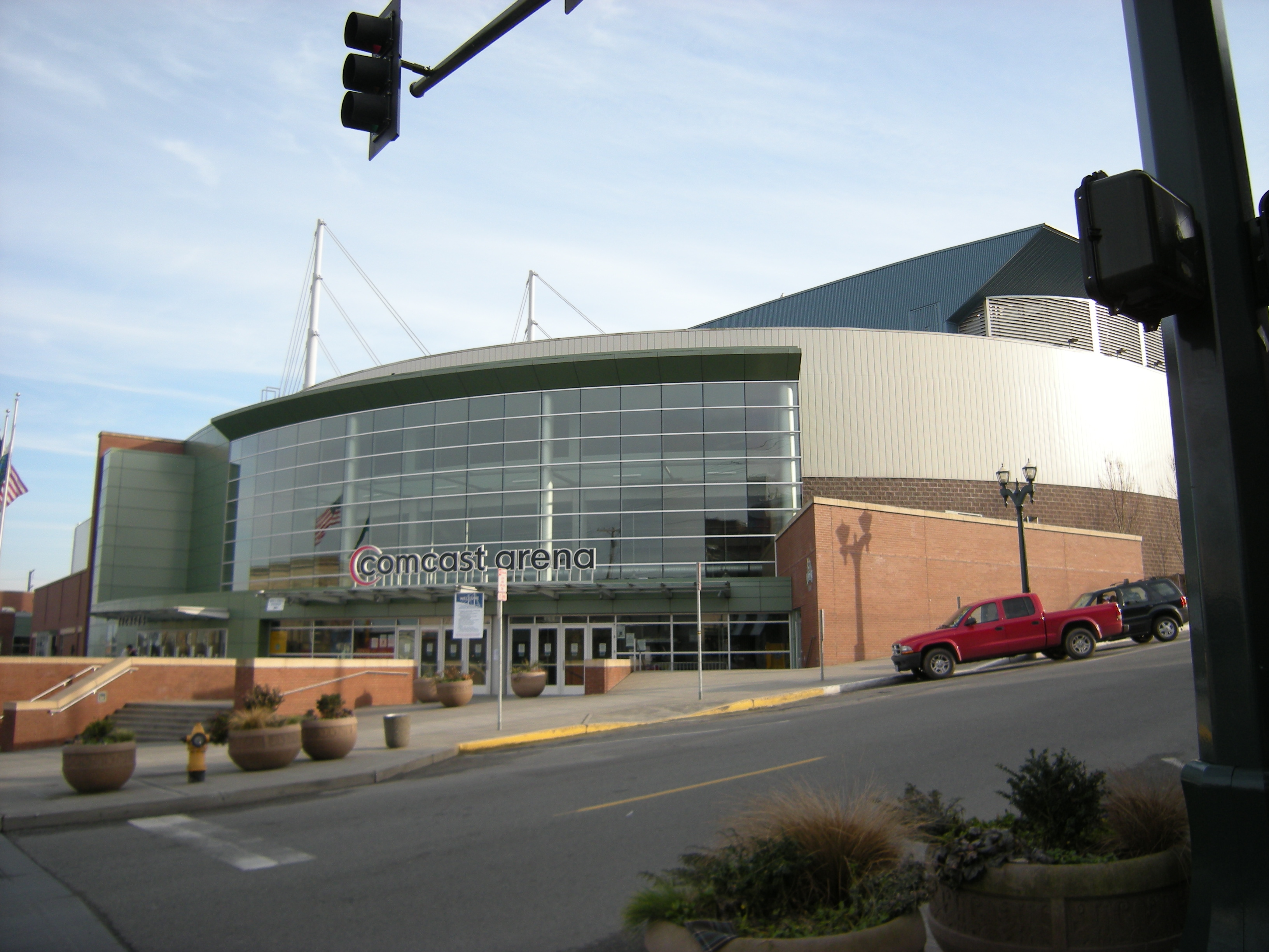 Comcast Arena (formerly Everett Events Center), Everett, Washington, USA.